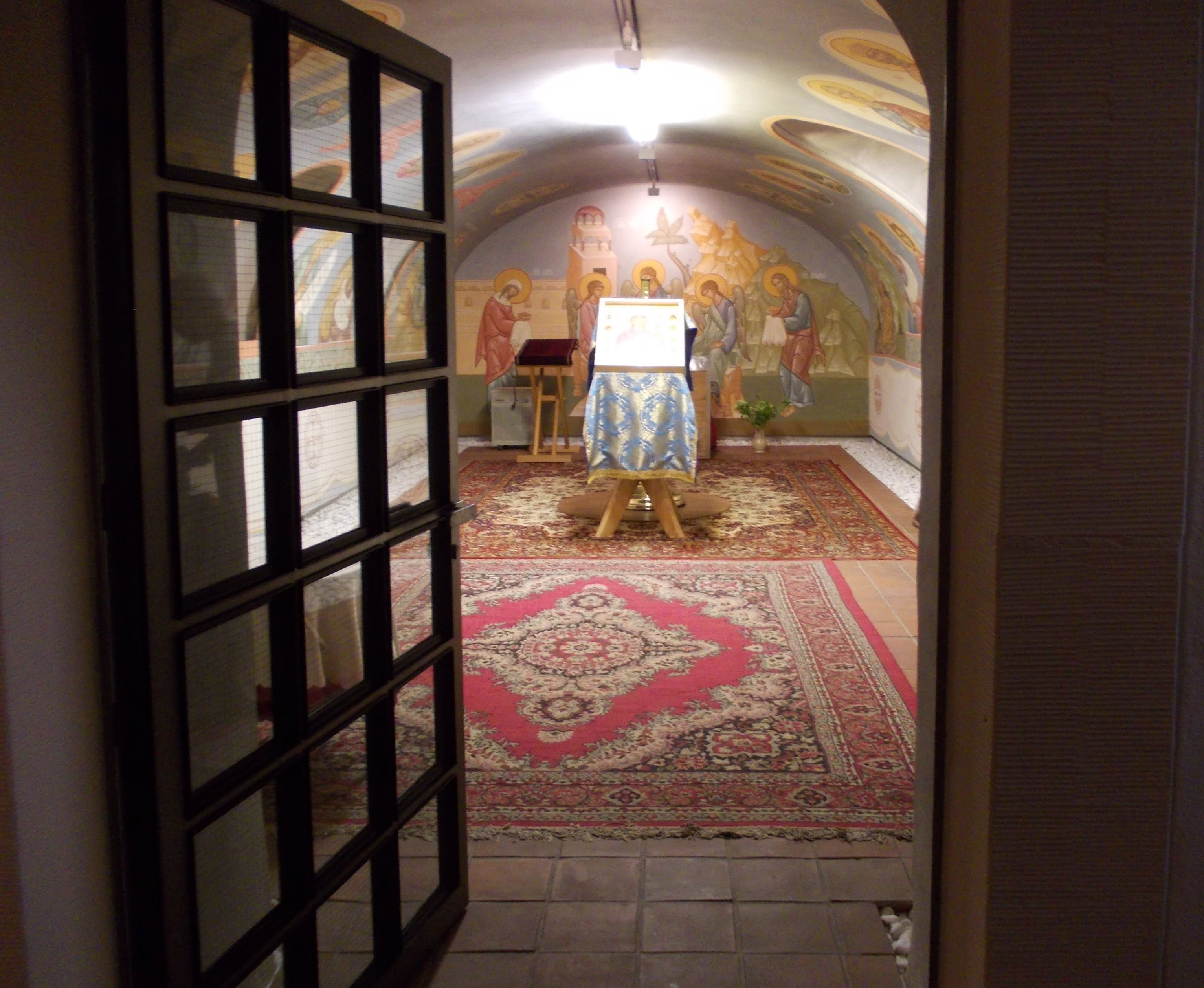 Russian Orthodox Holy Cross chapel in the Francke Foundations in Halle/Saale (Saxony-Anhalt)